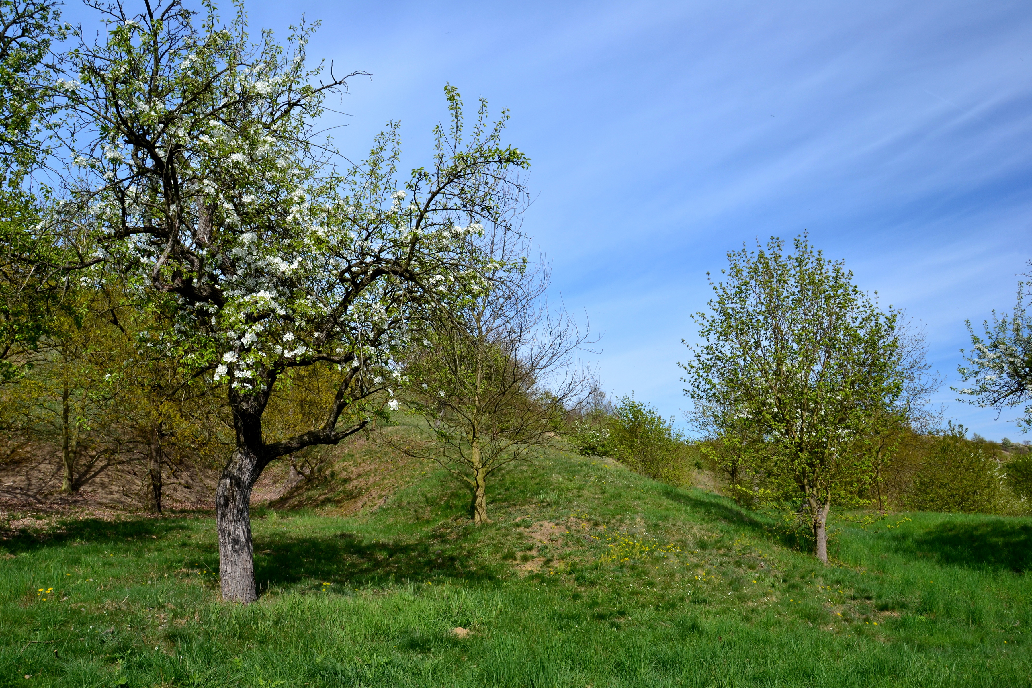 Natural monument Stroupeč in Louny District, Czech Republic